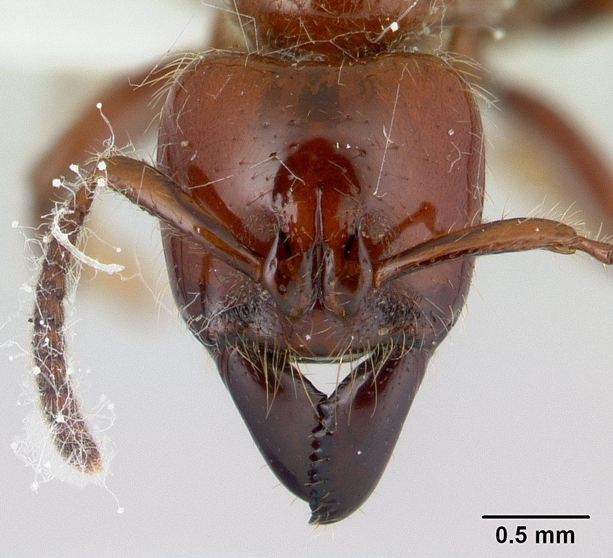 Head view of ant Centromyrmex gigas specimen casent0179476.